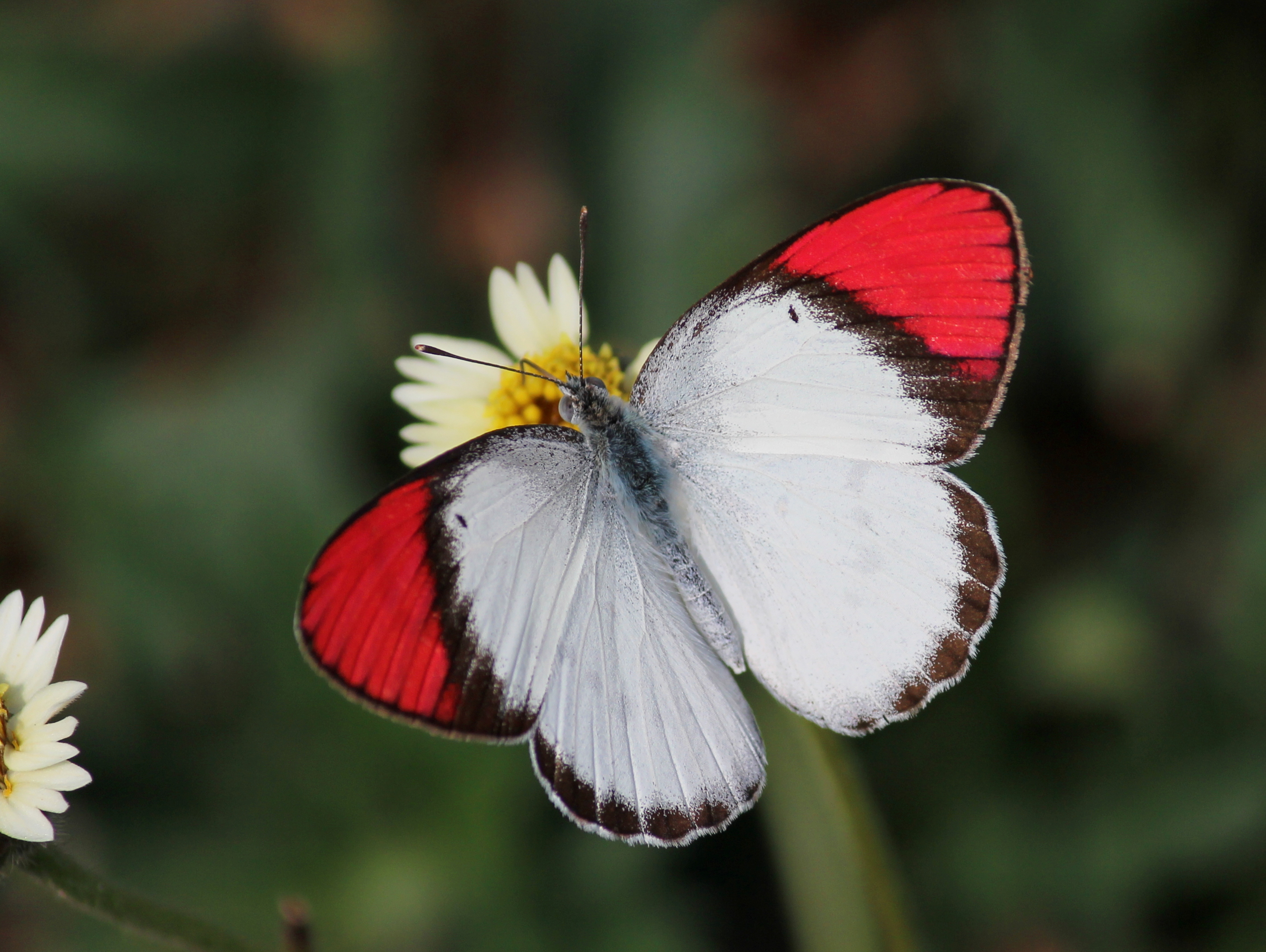 Colotis danae in Savandurga